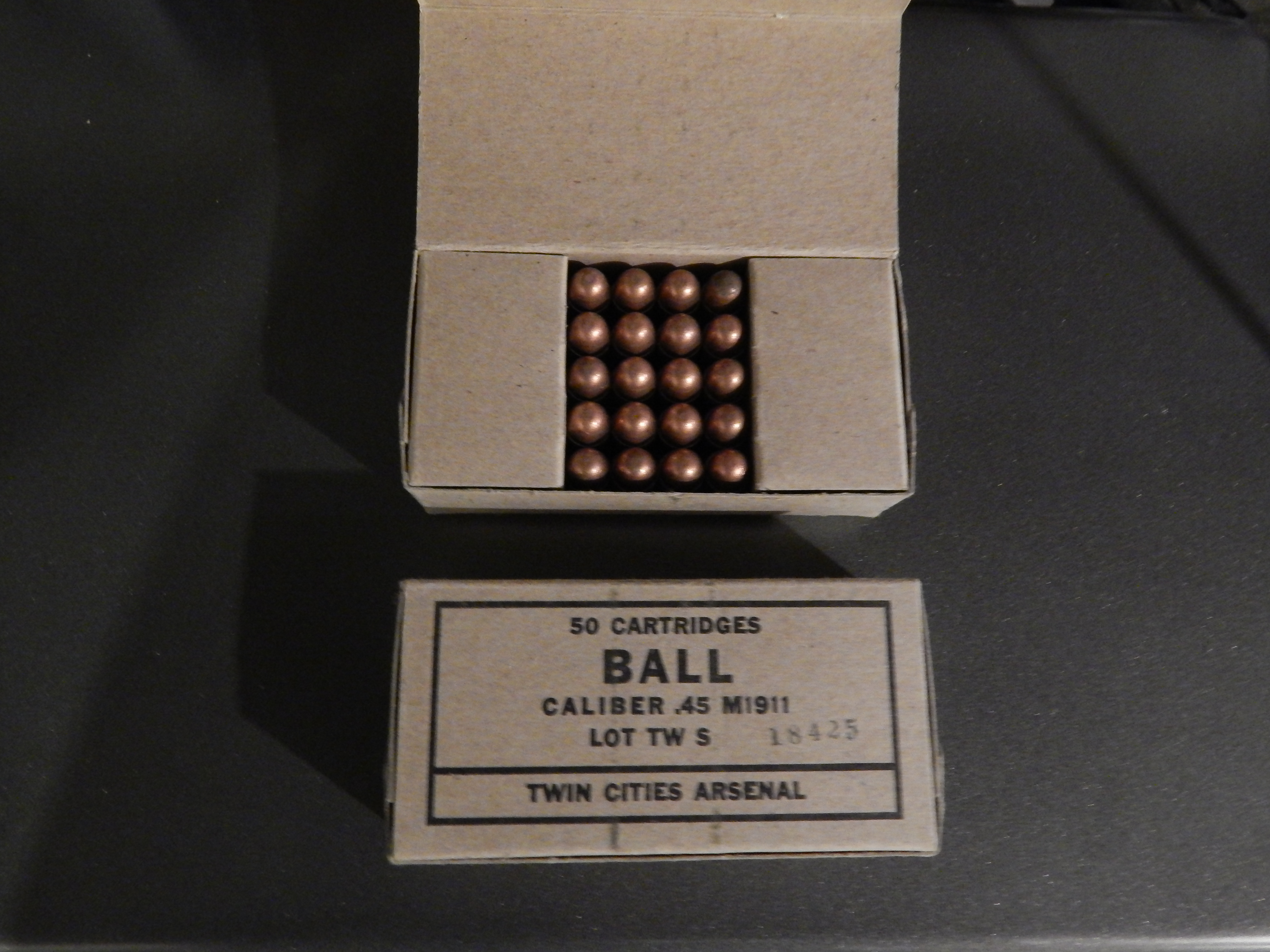 Image of a box of 50 rounds of .45 caliber handgun ammunition from around 1948. One unused round is visible in the image